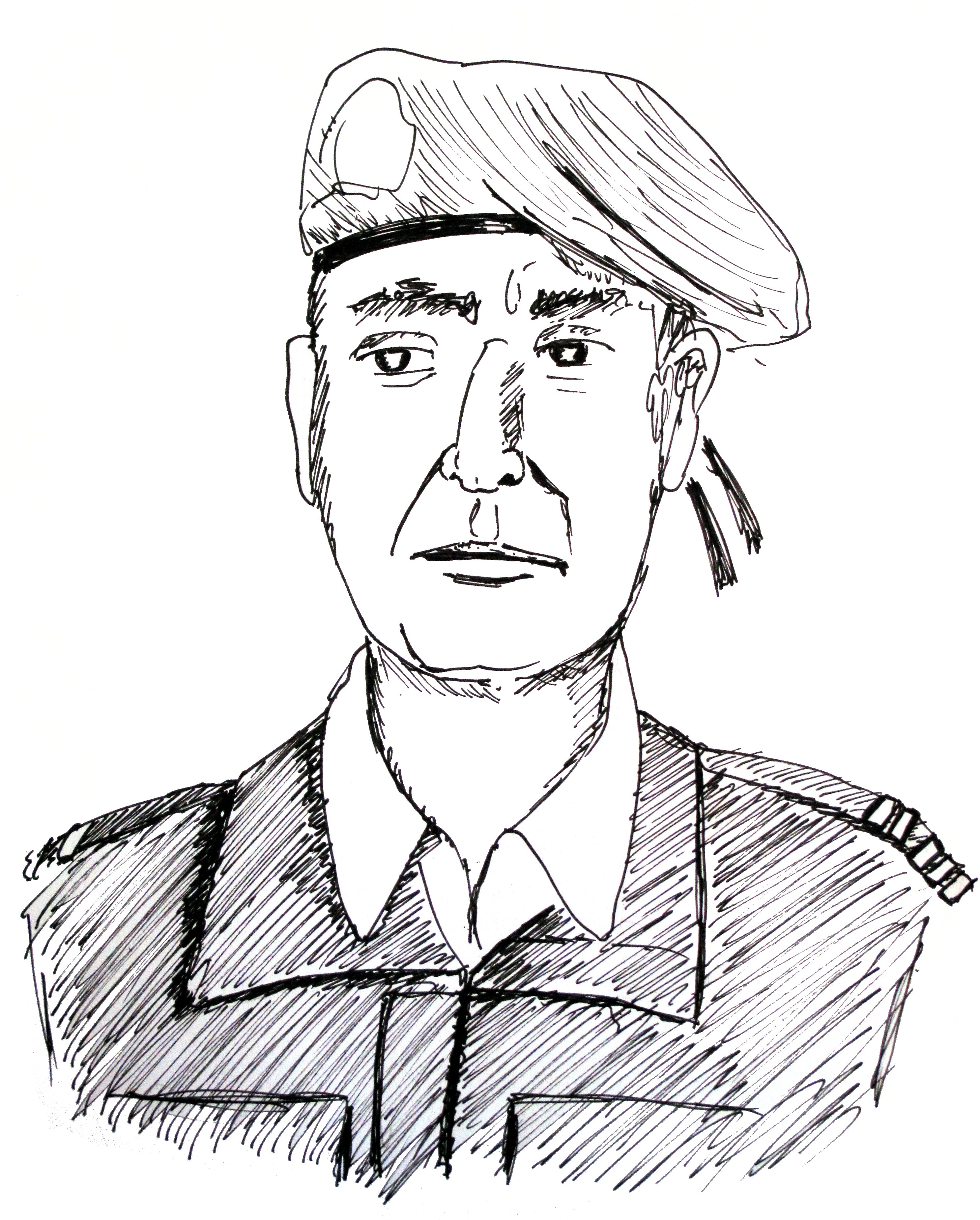 Colonel Paul Aussaresses